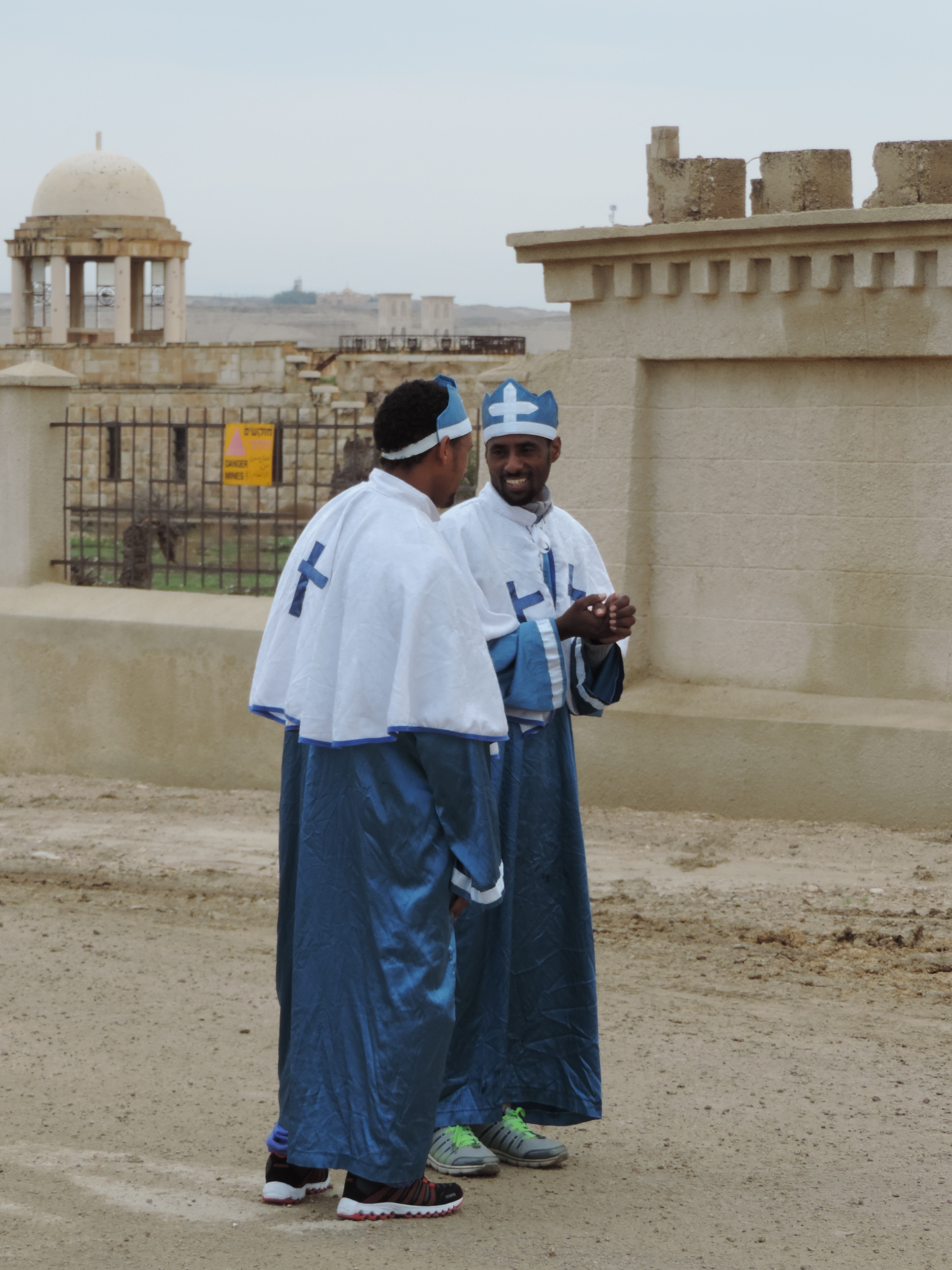 Kasser Al Yahud, a day before Epiphany.